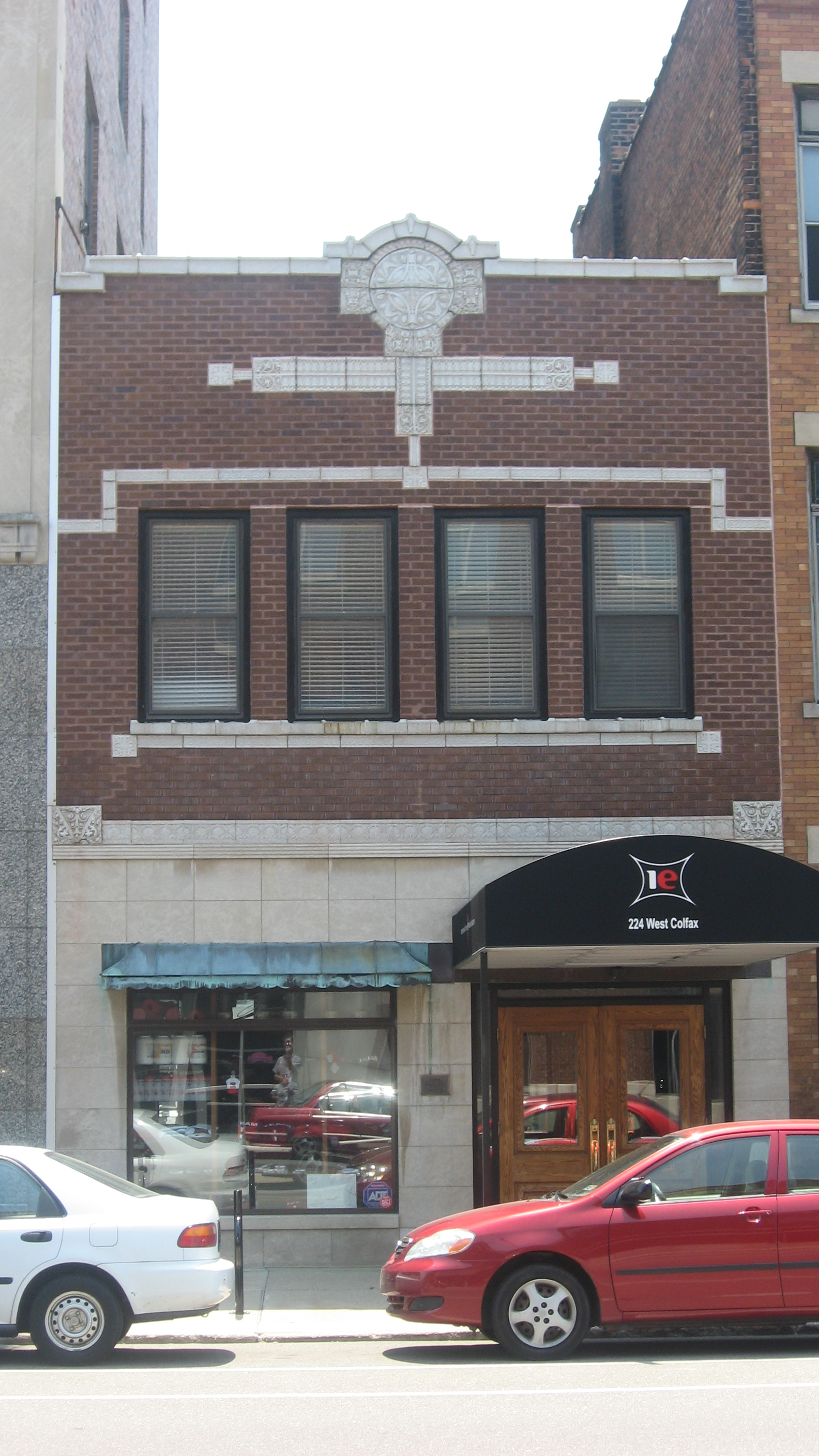 Front of the Commercial Building, located at 224 W. Colfax Avenue in South Bend, Indiana, United States. Built in 1921, it is listed on the National Register of Historic Places.